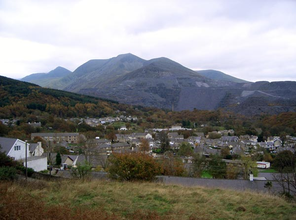 Bethesda, North Wales in Autumn. Looking west across the valley towards the quarry and the Ogwen valley.